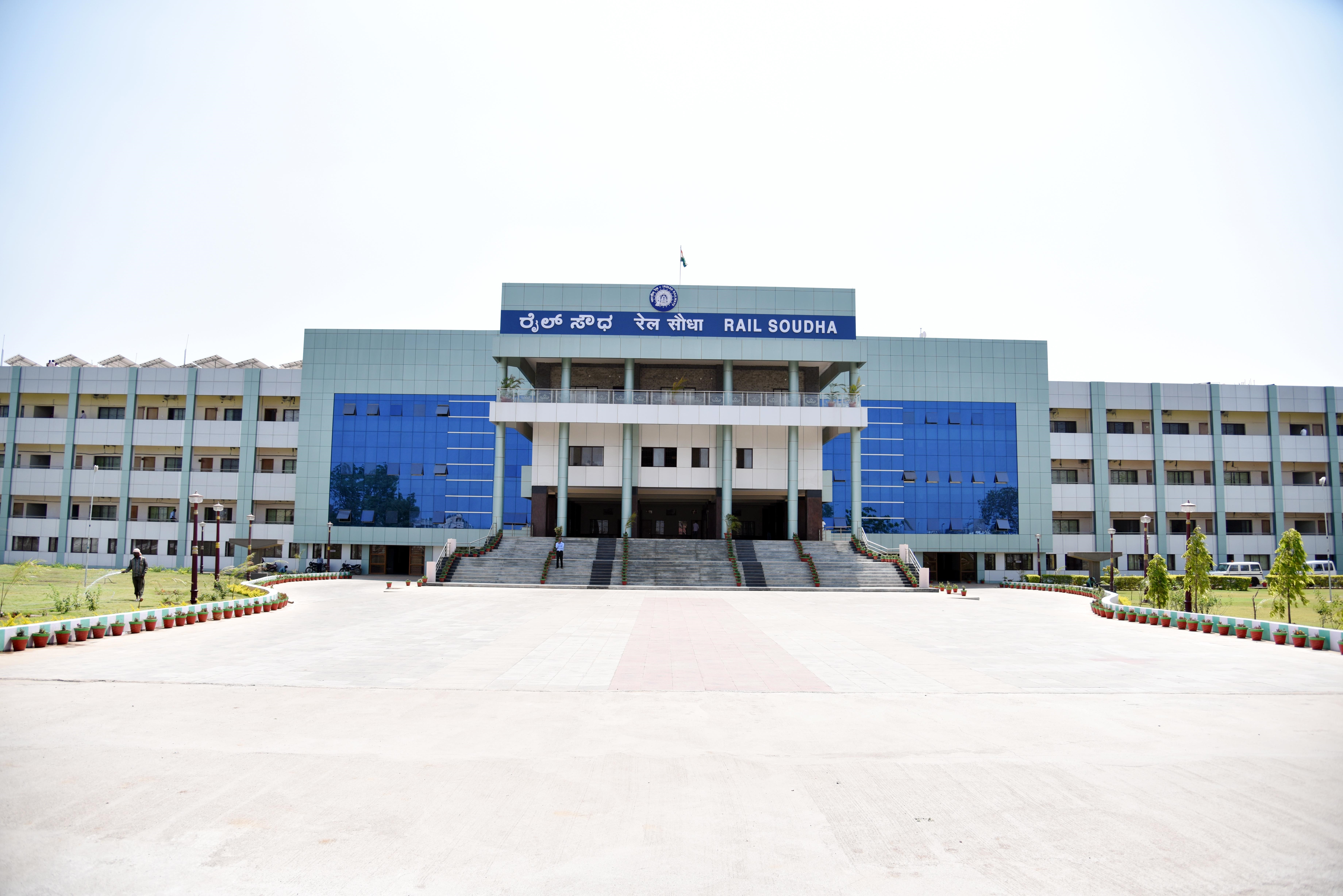 Rail Soudha, headquarters of the South Western Railway zone of the Indian Railways at Hubbali, Karnataka.